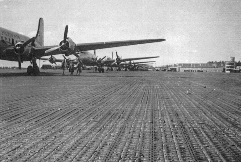 A line of Skymasters on the ramp at RAF Celle shortly before departing for Berlin during the Berlin Airlift